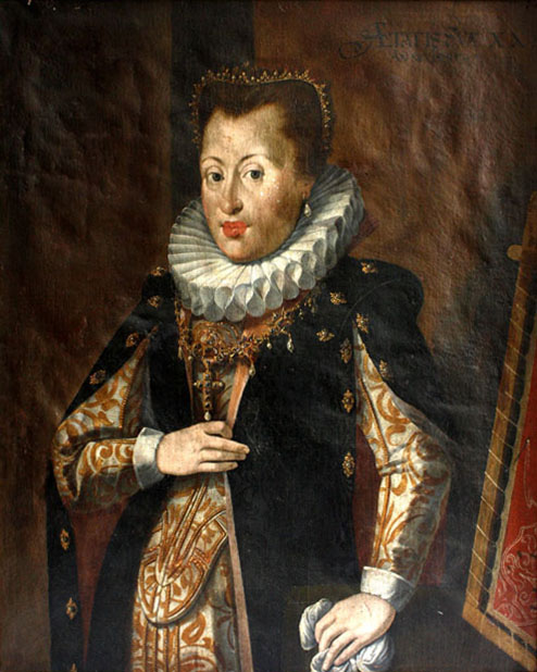 Anne Juliana Gonzaga (1566-1621)